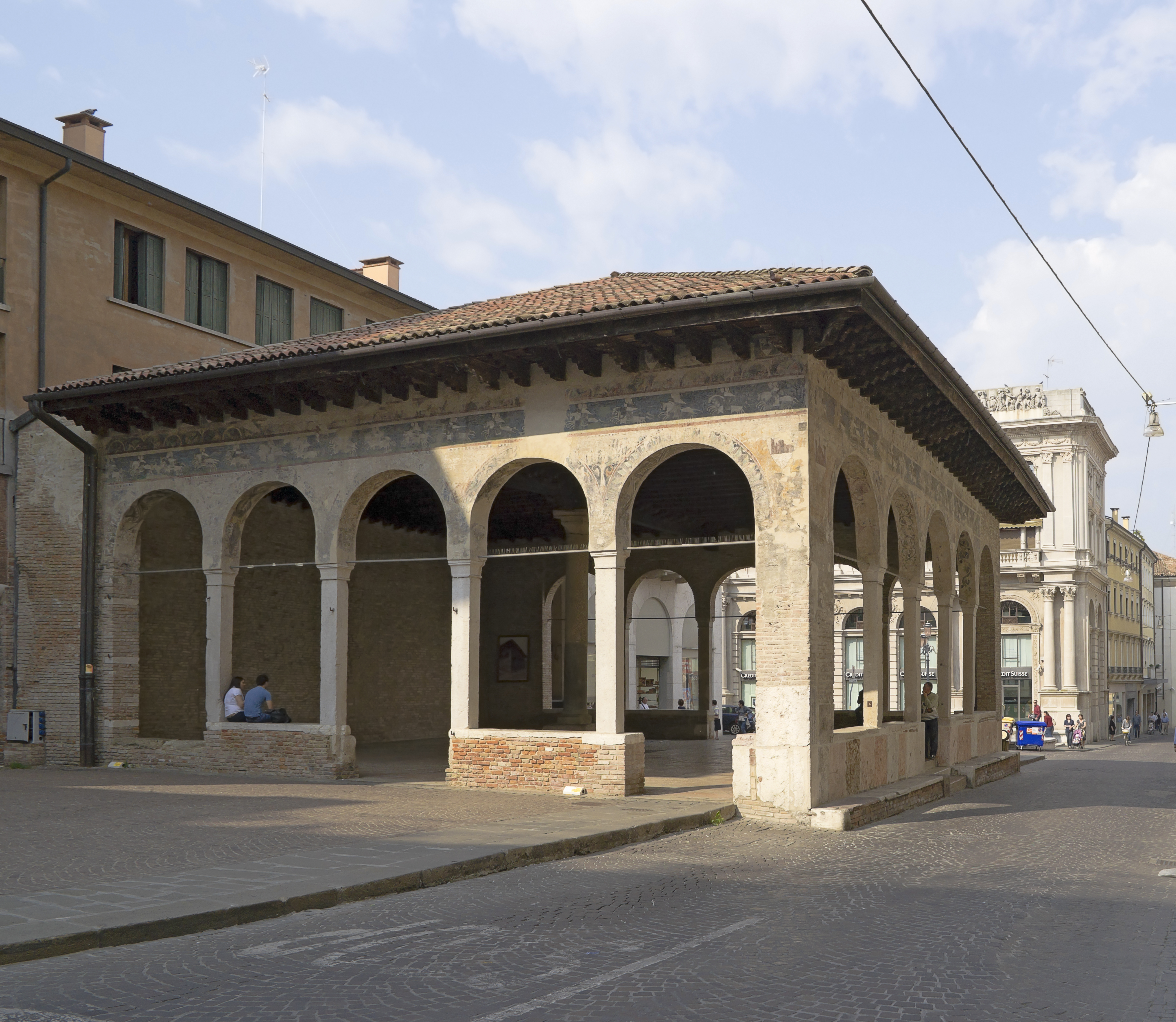 La Loggia dei Cavalieri of Treviso